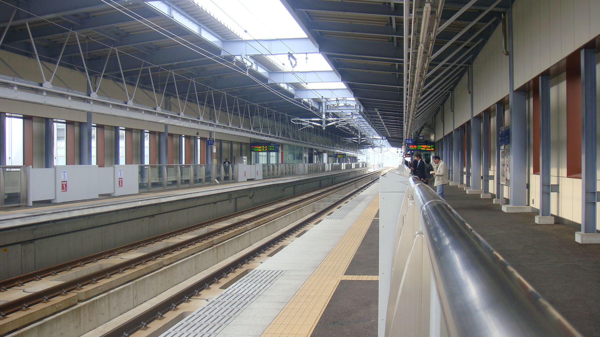 Kurume Station Platform 11 and 12 for Kyushu Shinkansen